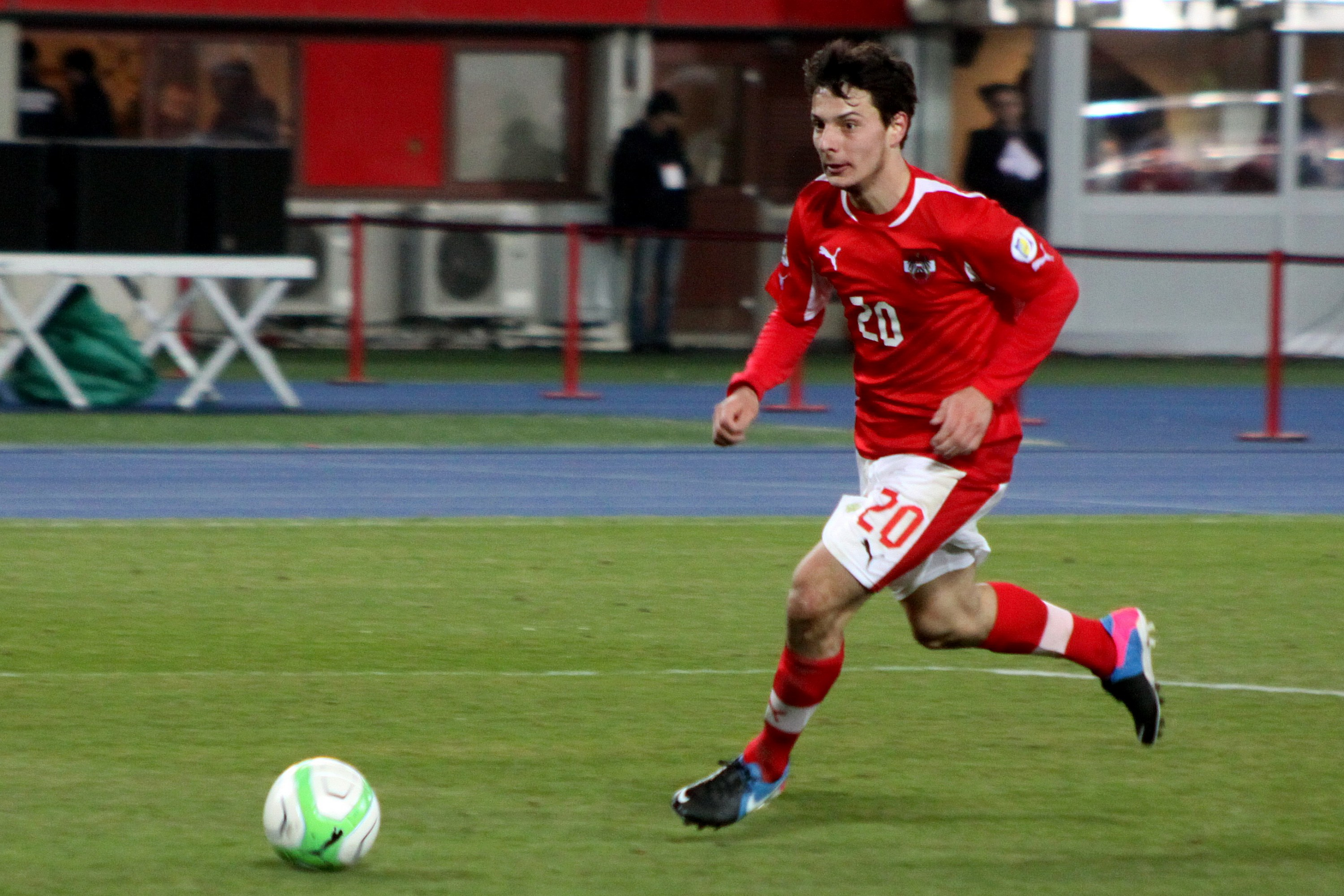 2014 FIFA World Cup qualification (UEFA), Group C: Austria national football team vs. Faroe Islands national football team 6:0 in the Ernst-Happel-Stadion in Vienna at 2013-03-22. – The photo shows Philipp Hosiner scoring the 2:0 (picture 4/5).